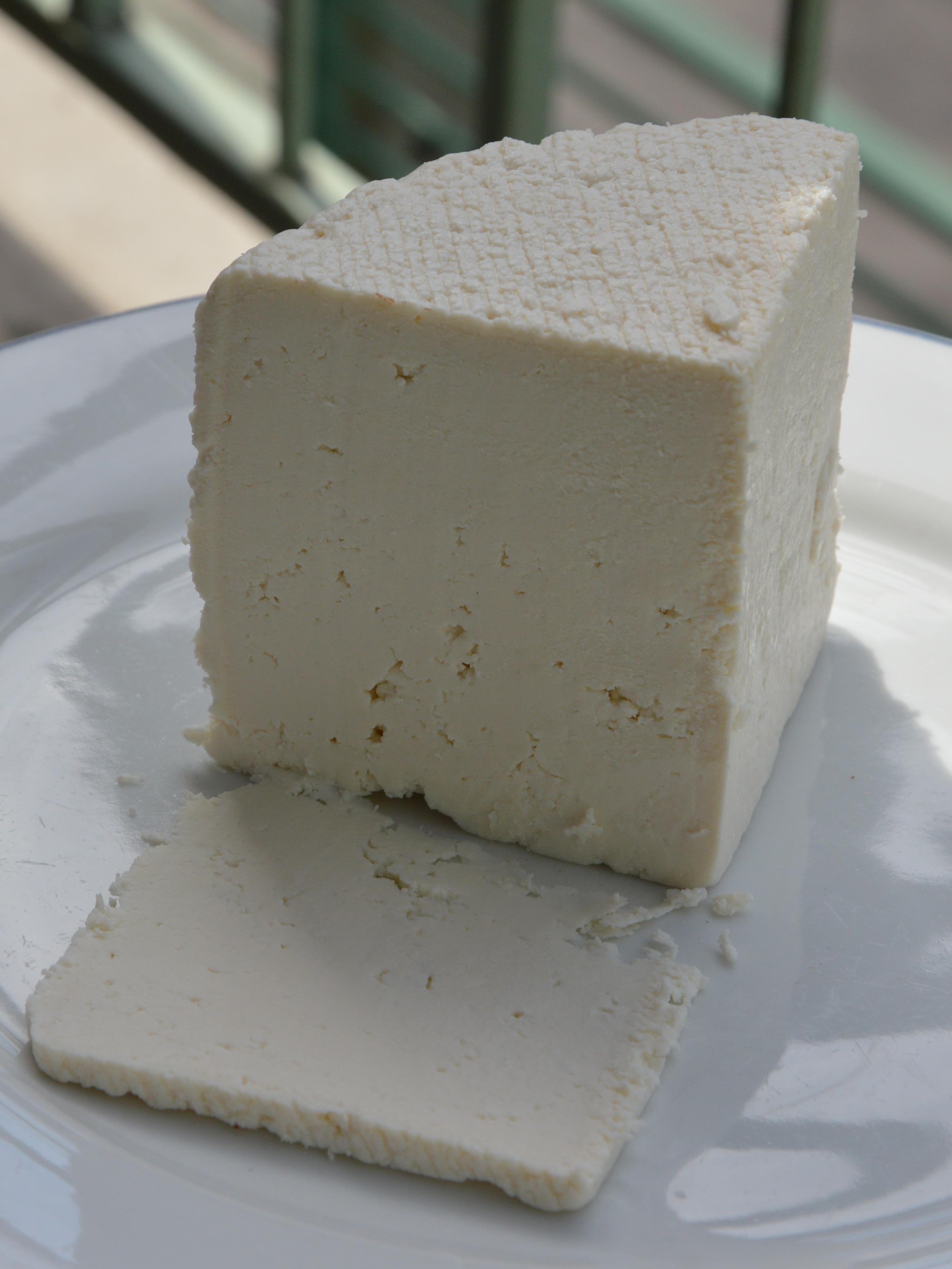 Orda cheese, purchased in Hungary. Alternatively known as Urdă in Romania, урда in Macedonian and Bulgarian, and вурда in Serbian and Ukrainian.